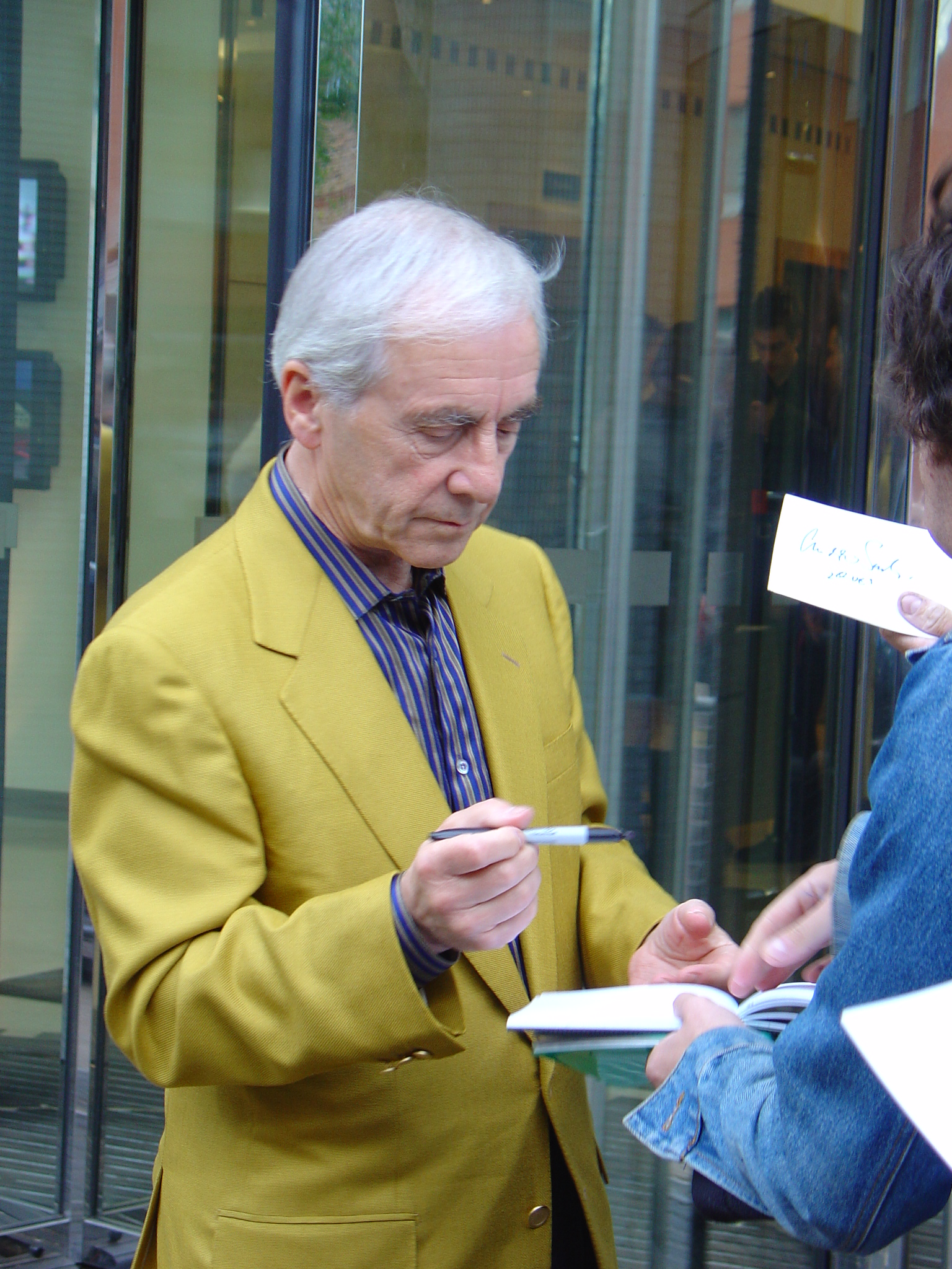 Andrew Sachs, German-born British actor, outside London Studios in September 2004